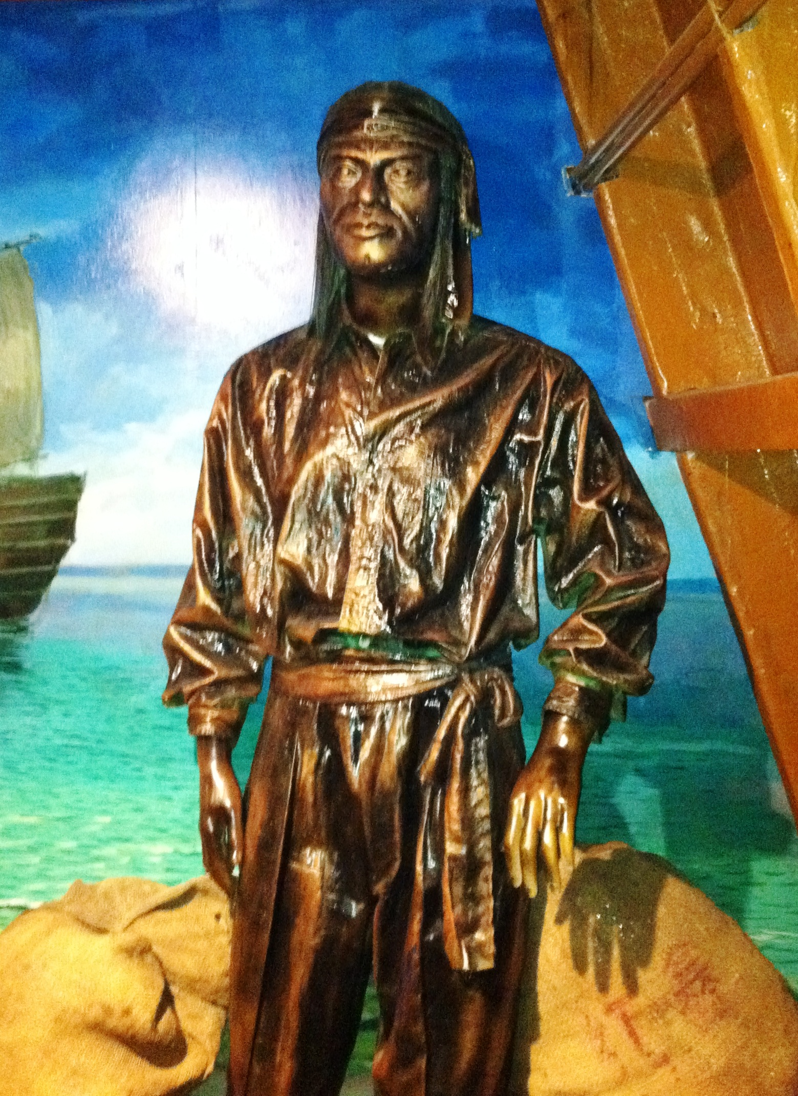 Statue of Panglima Awang a.k.a Henrique of Malacca in the Maritime Museum of Malacca, Malaysia